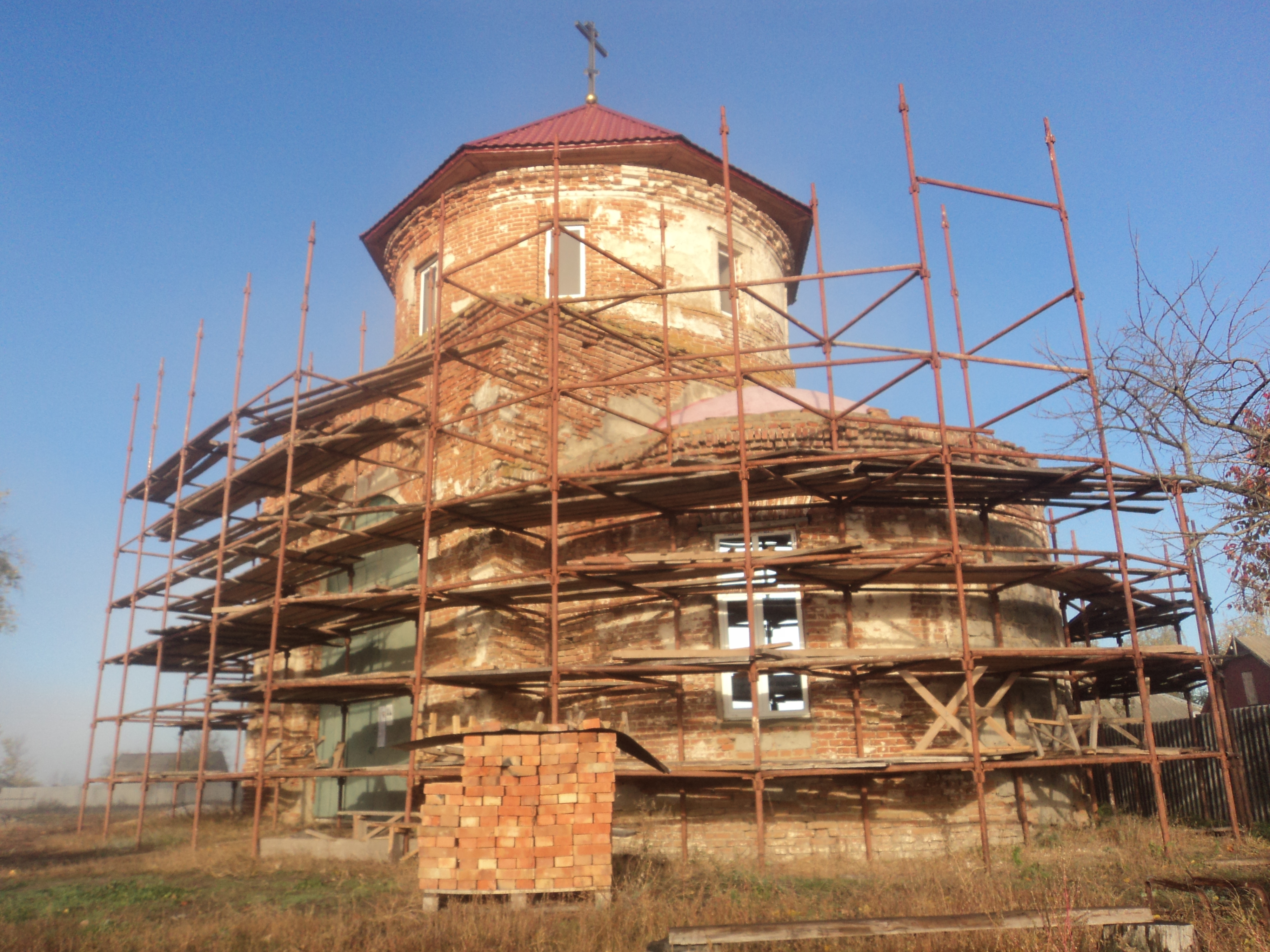 Church in Babka, Voronezh Oblast